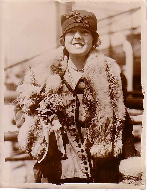 Photograph of Ruth Gillmore